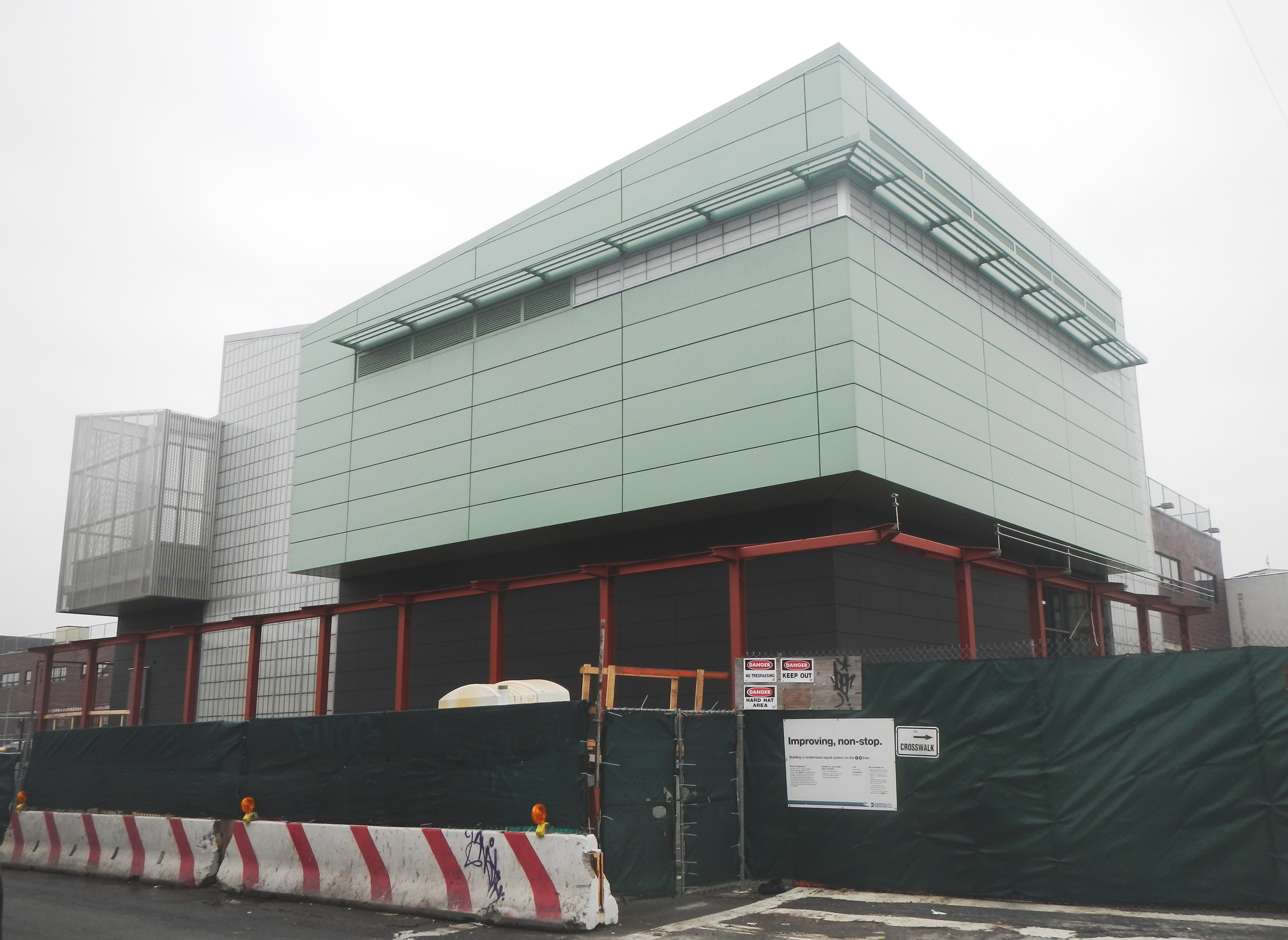 Looking southwest on a cloudy day.